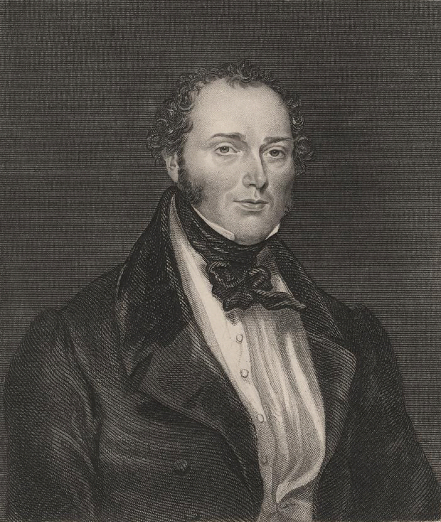 Stipple engraving portrait of the Chartist leader Feargus Edward O'Connor after an unknown artist